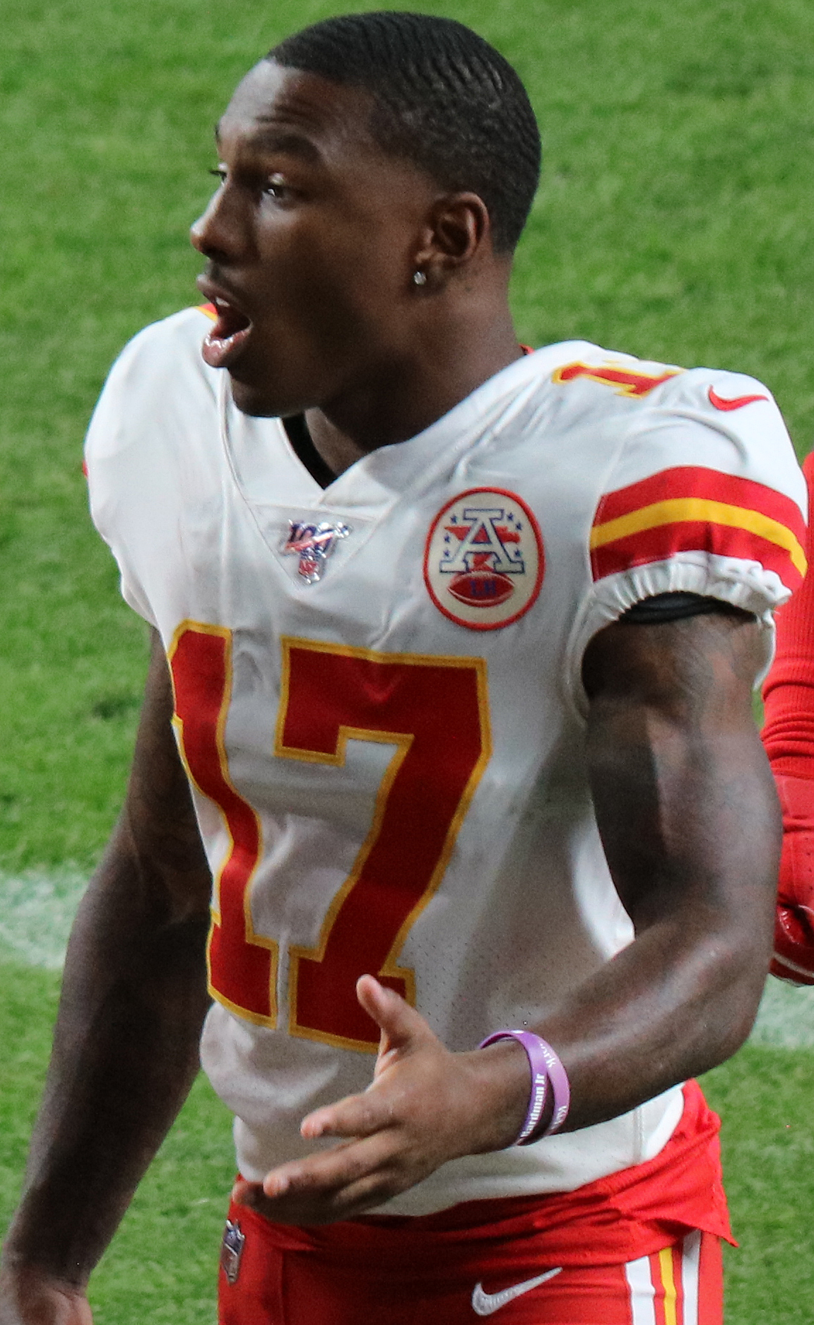 Mecole Hardman, a National Football League player.